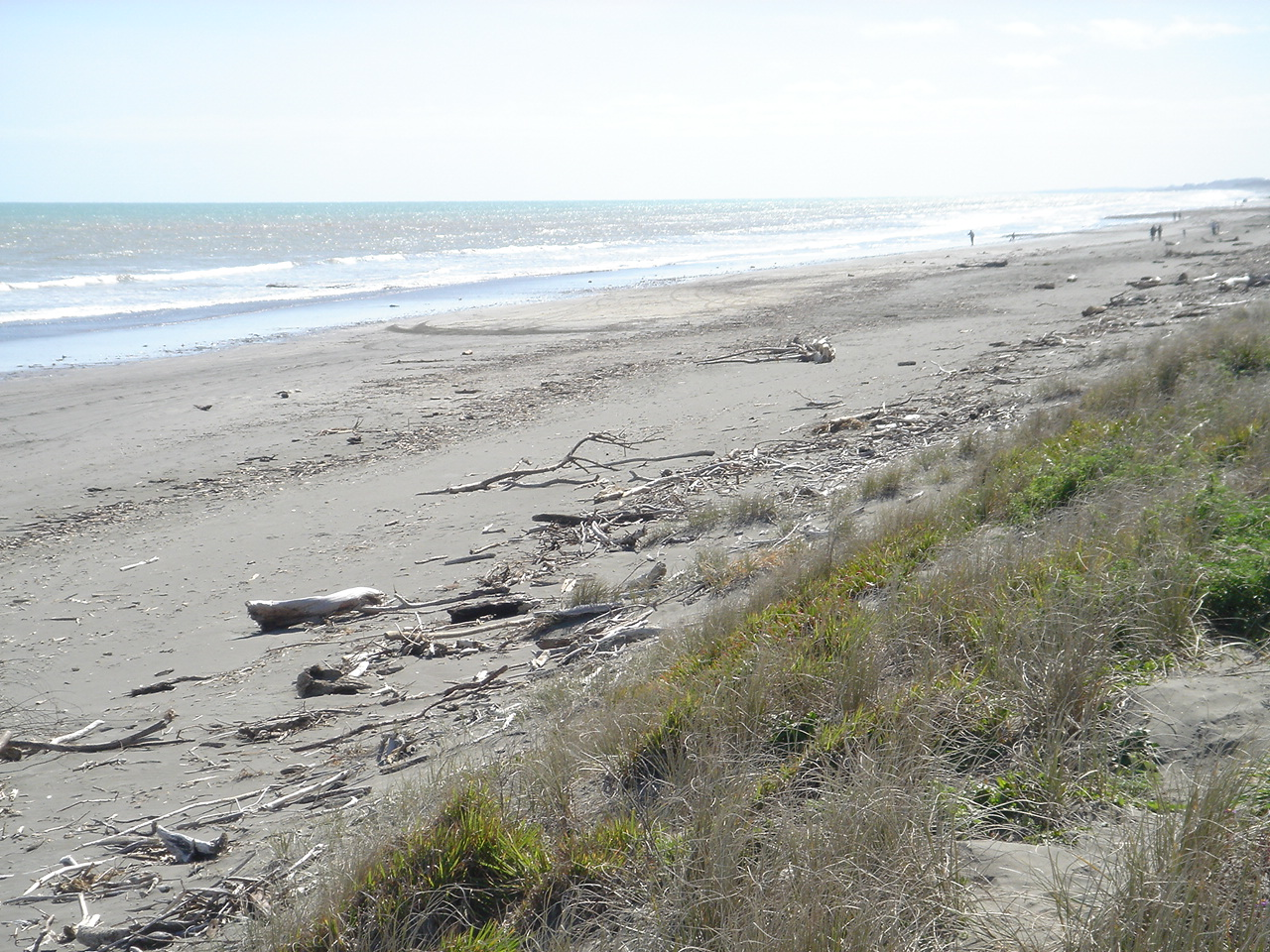 Peka Peka Beach looking north. Taken 2004